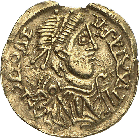 Gold coin (411-450 AD) from the Kingdom of the Suebi in the Iberian peninsula